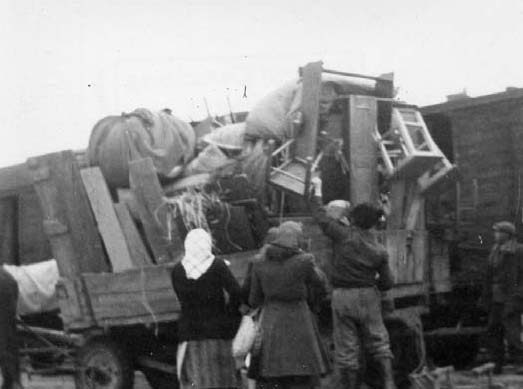 Authority: [1] Proprietorship:[National Archives of Hungary, Budapest, Hungary]